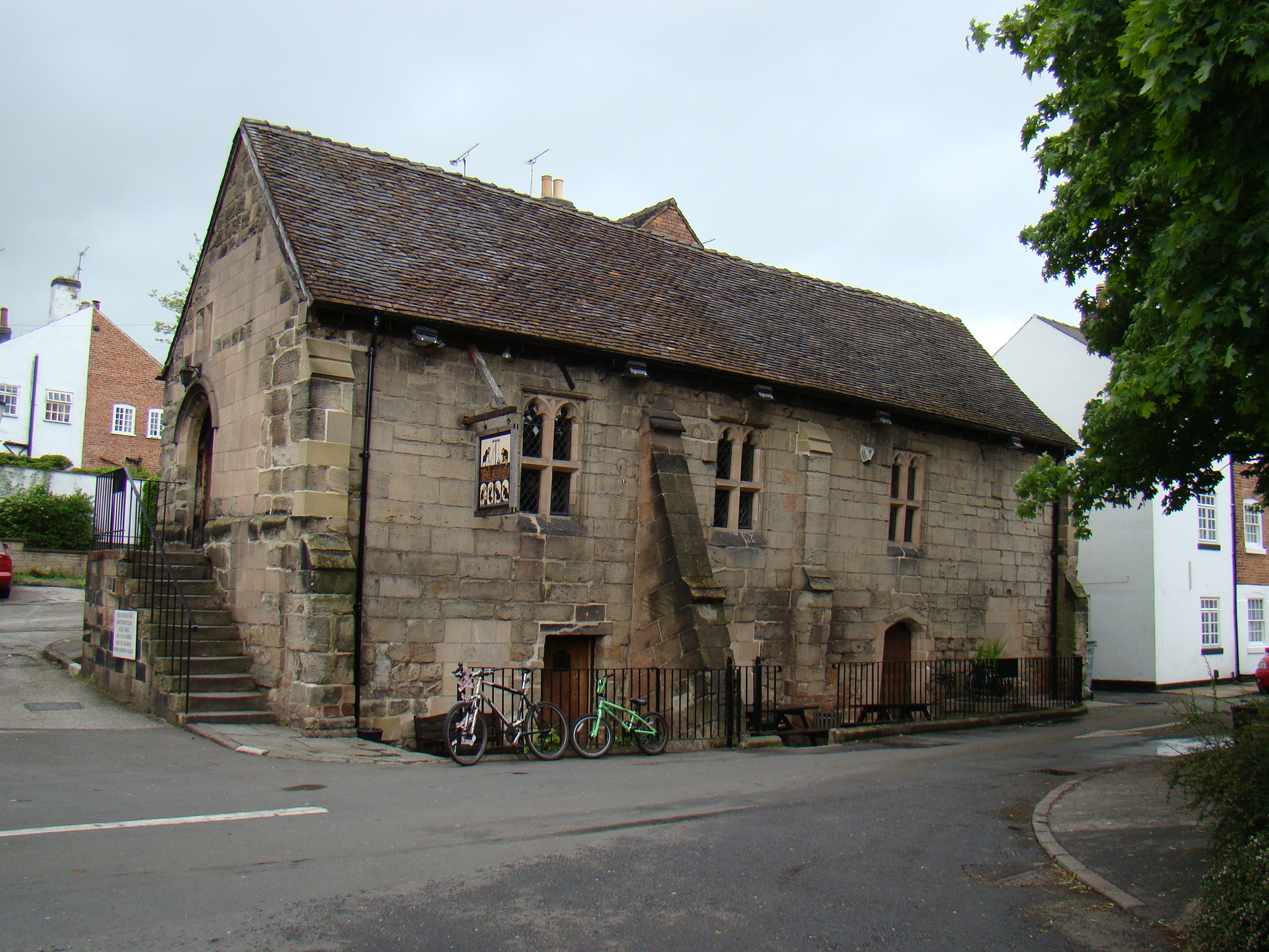 A photo of the Abbey Public House in Darley Abbey, Derby. The building is one of only two buildings left standing from the former Abbey. It was renovated to its present condition in 1978.